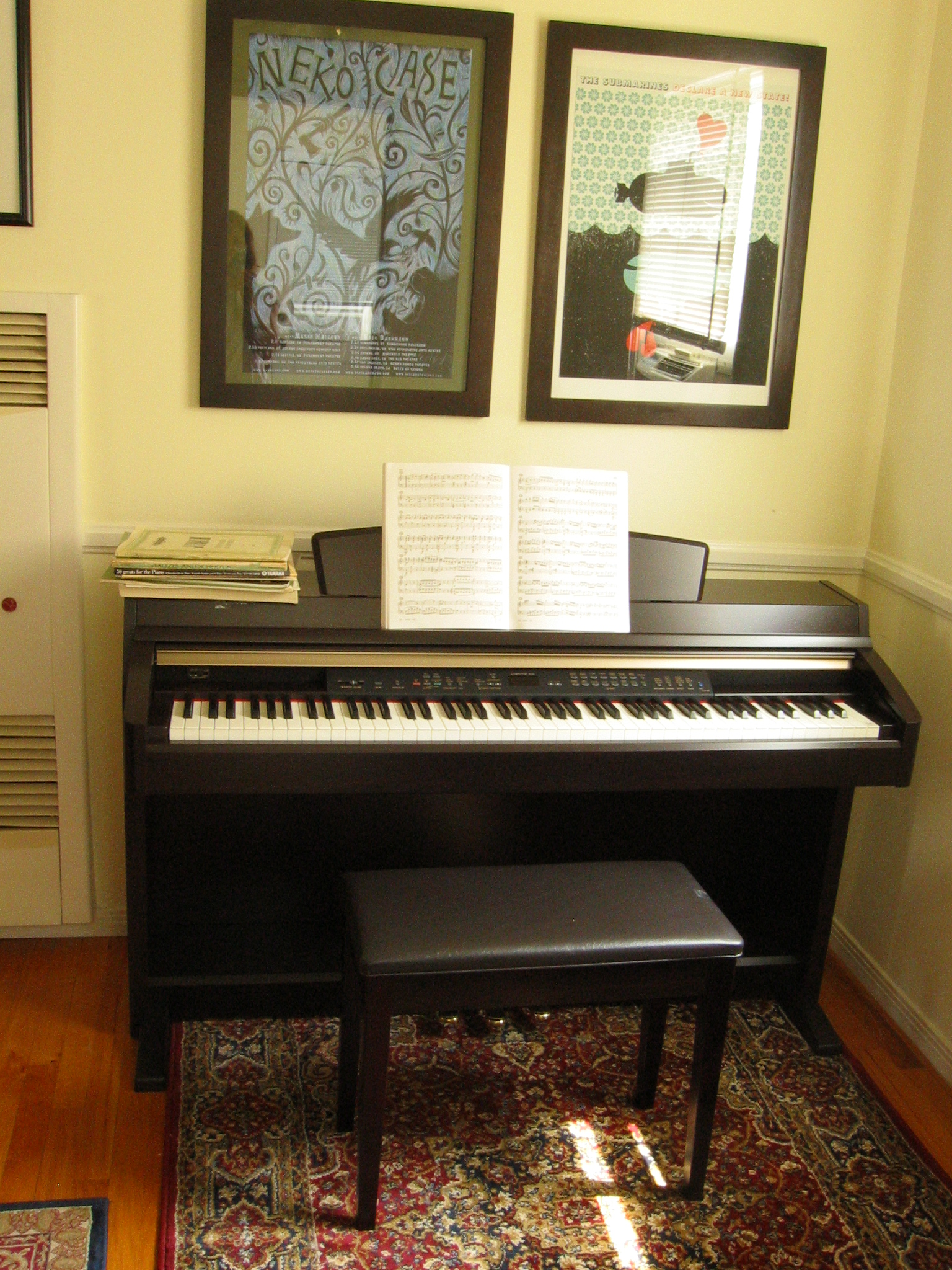 The newest keyboards have GH3 (graded hammer) technology, so it feels like a real piano when you are playing it - also the keys are heavier as you play from high octave to bottom.